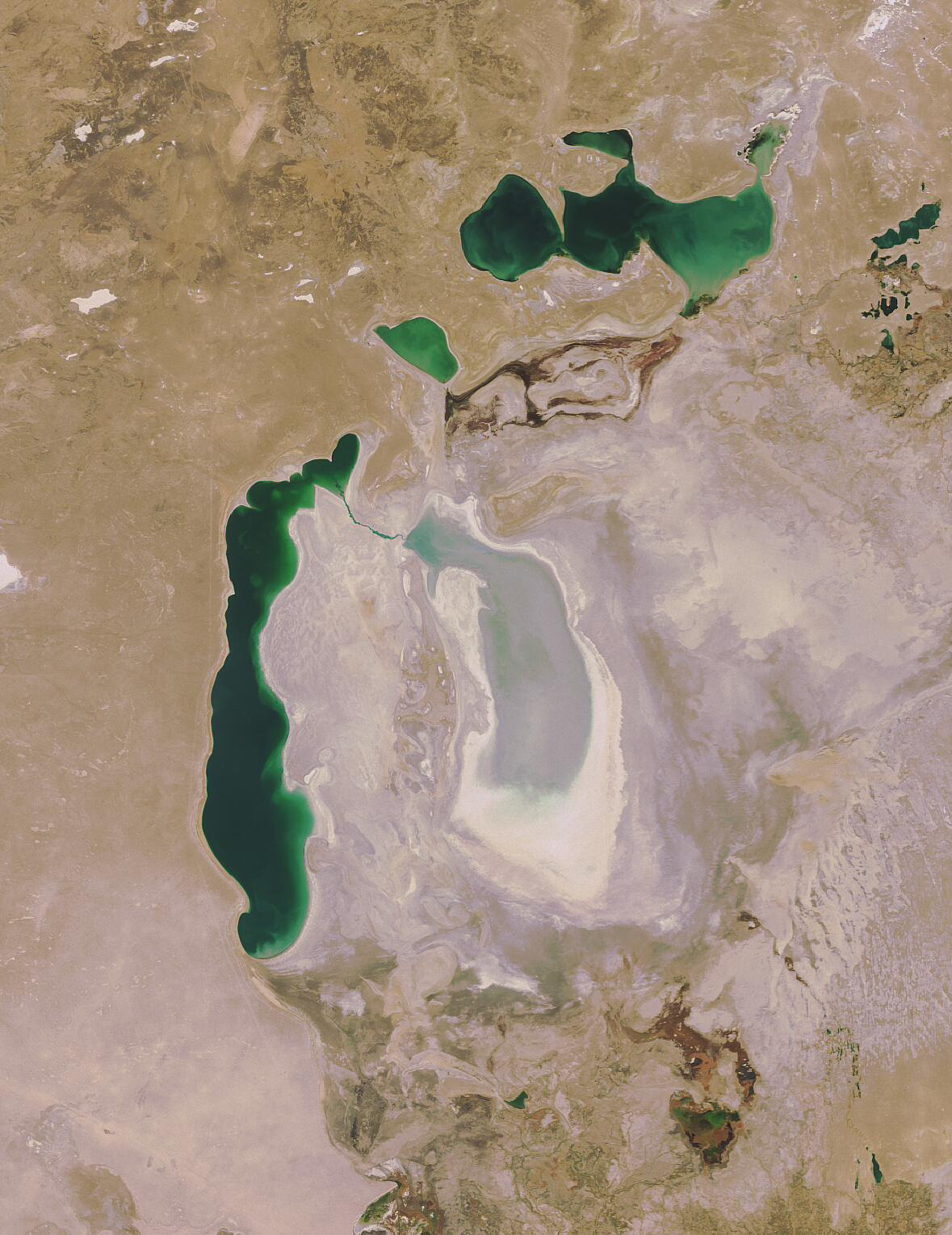 Aral Sea